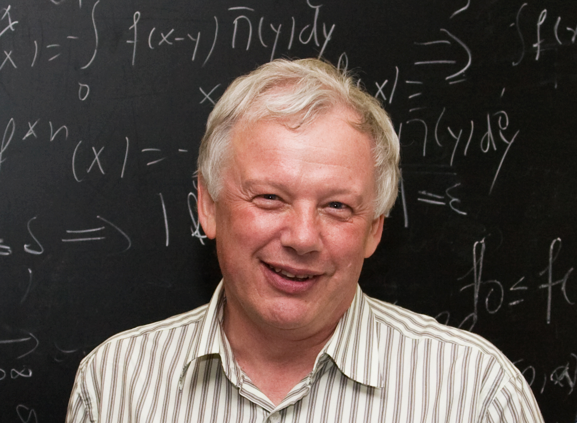 David Broomhead at CICADA Launch Event, 30 June 2008.